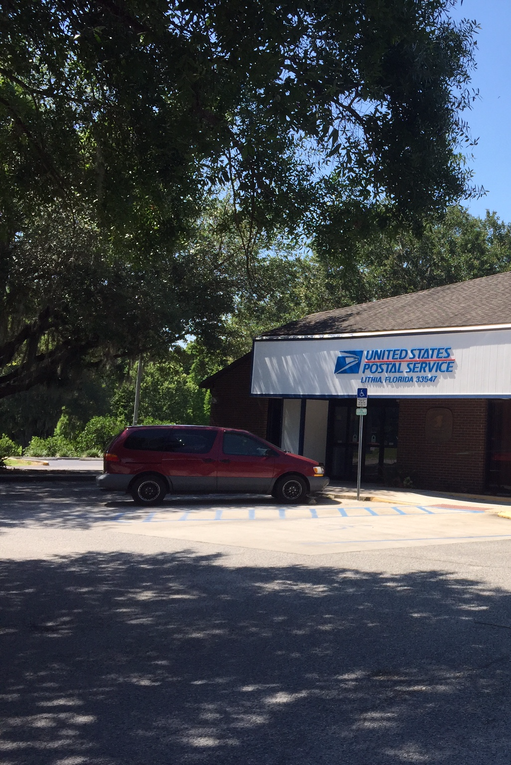 The US Post Office in Lithia, Florida, as it appeard on May 7, 2016